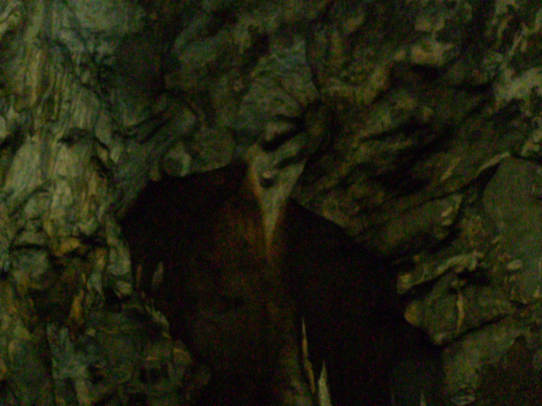 grottos of lanquin